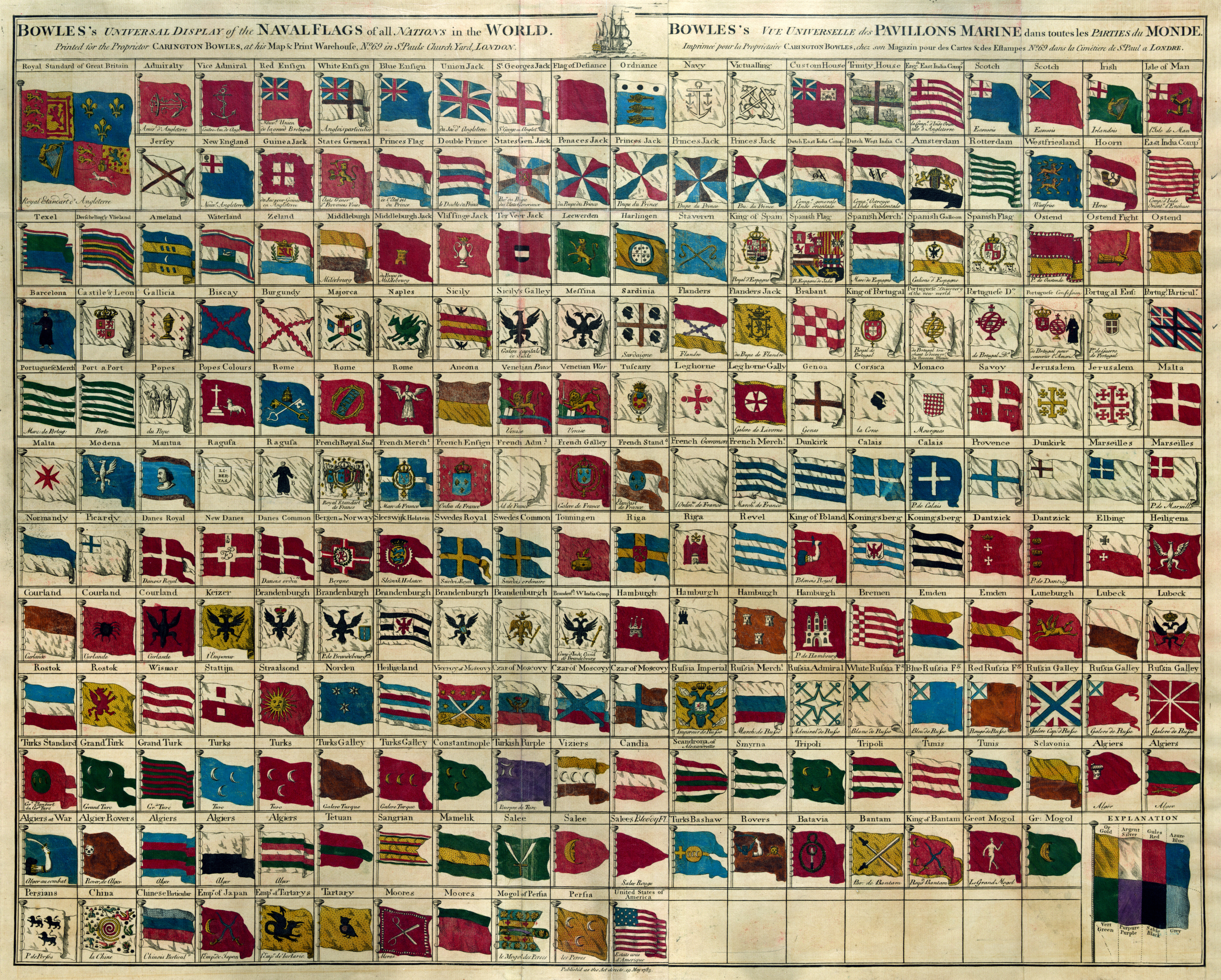 Bowles's universal display of the naval flags of all nations in the world. Printed for the proprietor Carington Bowles, at his Map & Print Warehouse, No. 69 in St. Pauls Church Yard, London.